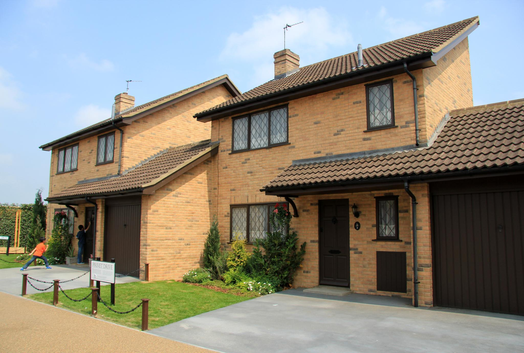 Warner Bros. Studio Tour London: The Making of Harry Potter.